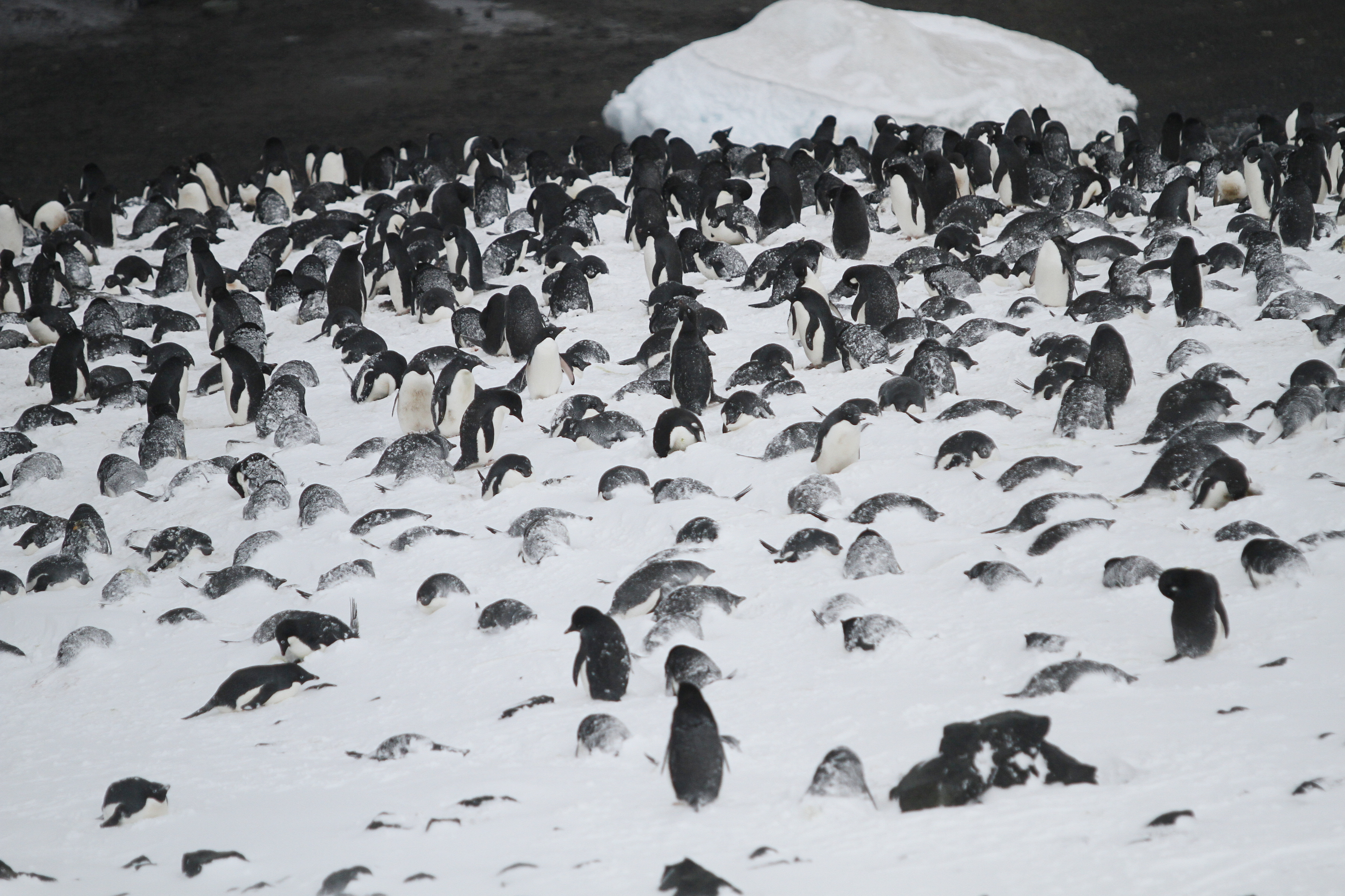 This was the first day the weather looked like you'd expect Antartica to look...